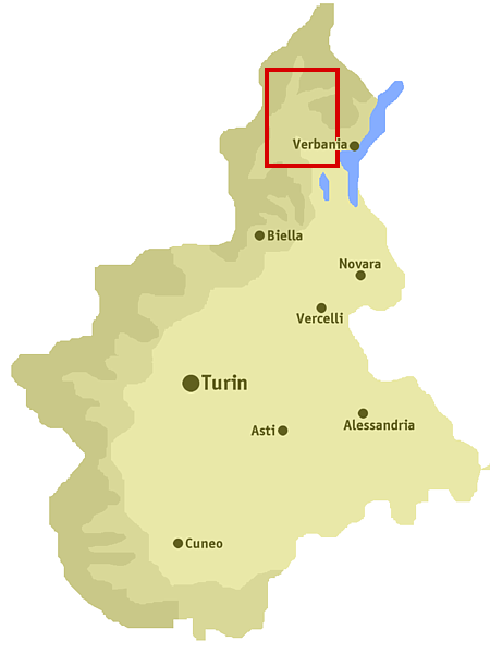 ENG version of ValOssolaposizione.PNG